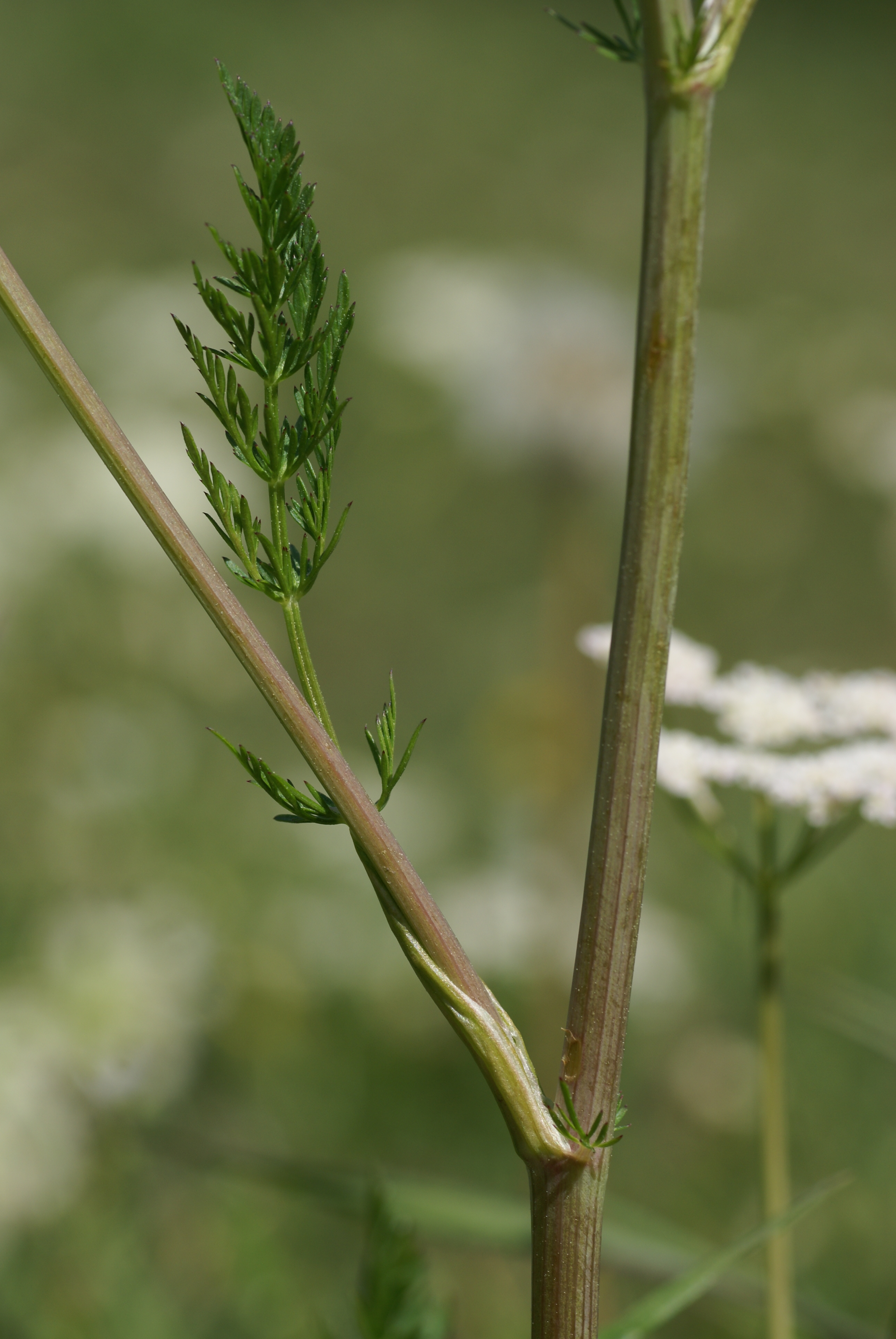 Plant species Carum carvi, stalk and leaf.